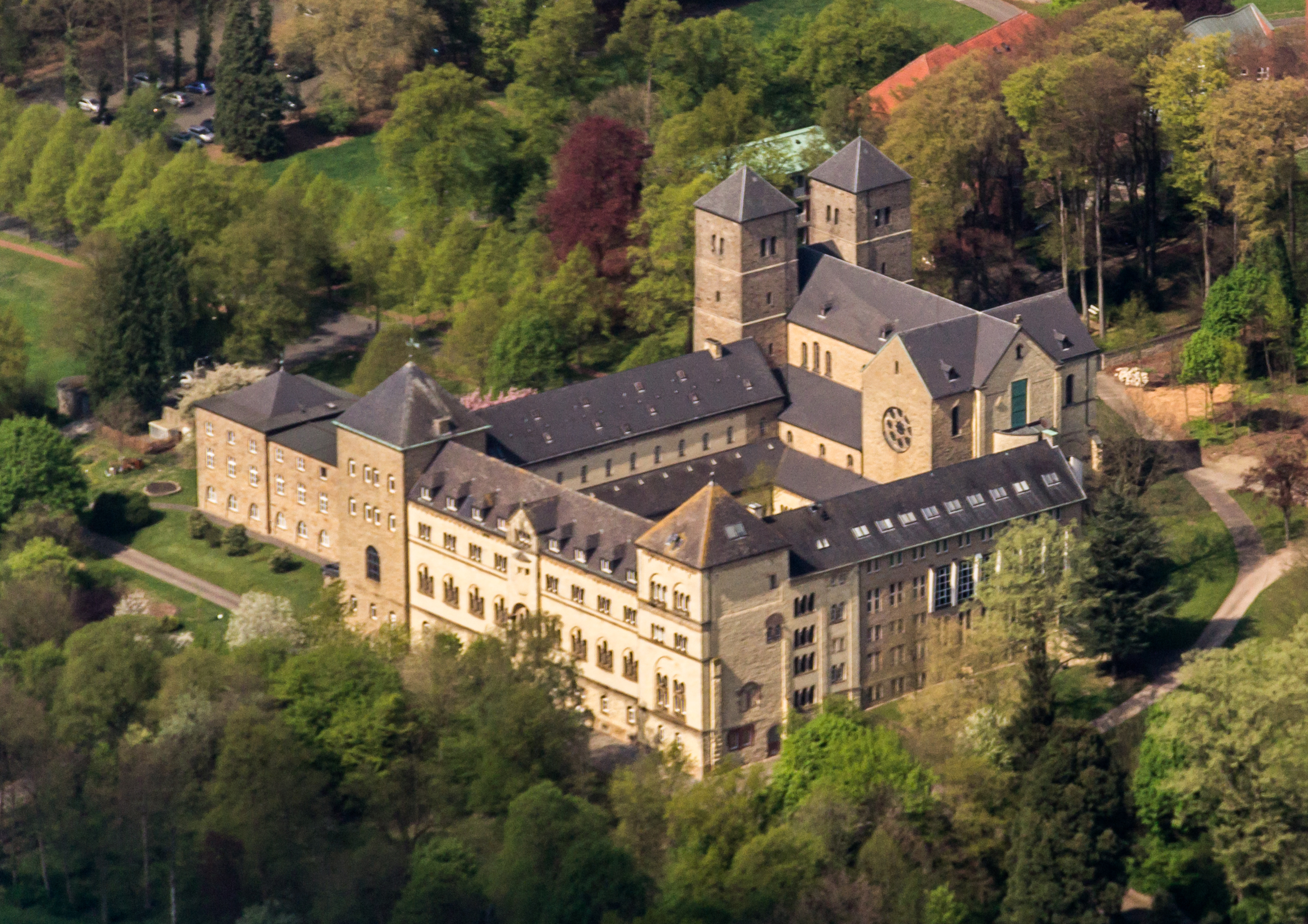 Coesfeld, North Rhine-Westphalia, Germany